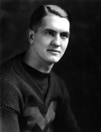 Photograph of Angus Goetz